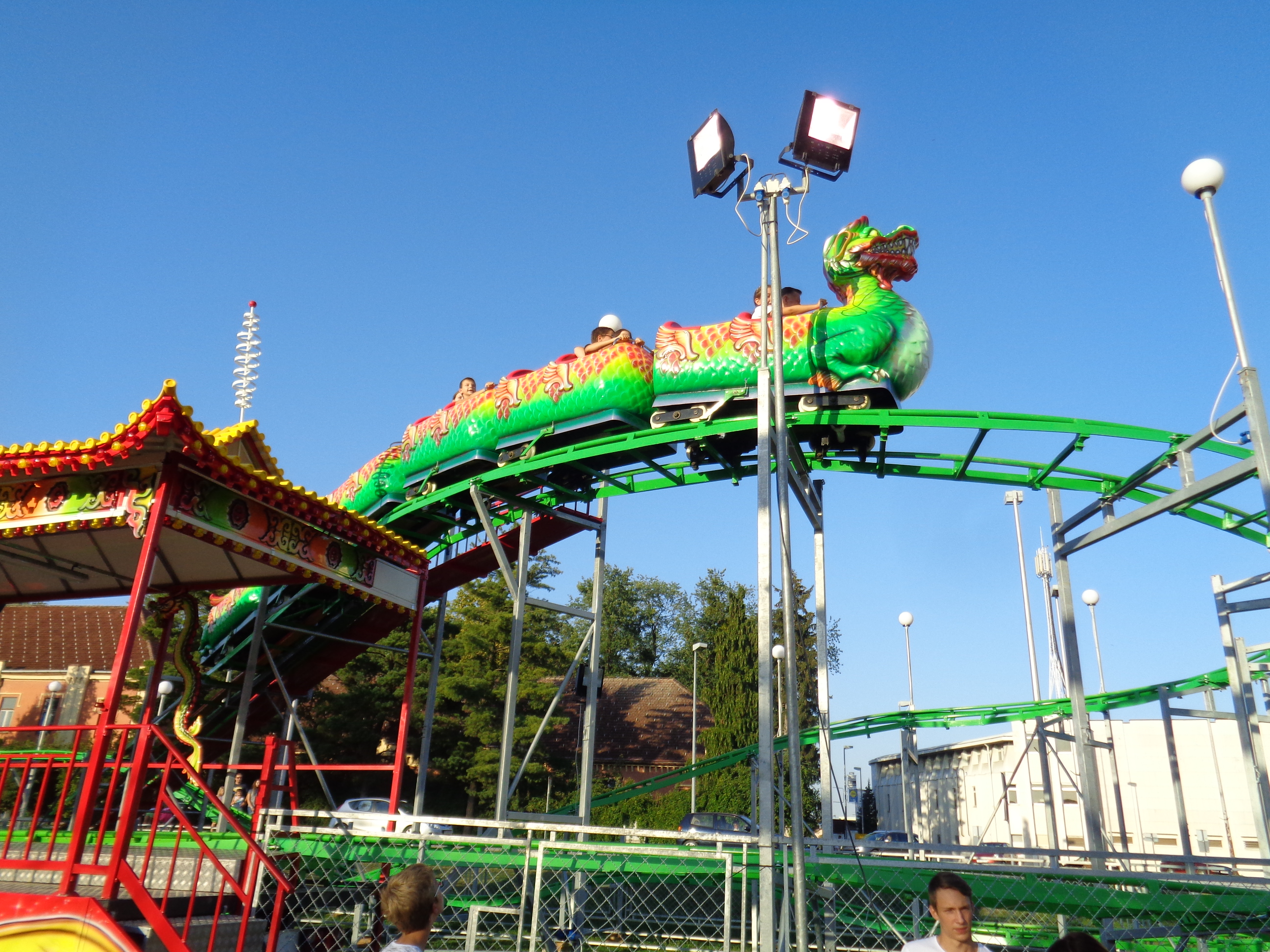 Porcijunkulovo, Catholic feast of Our Lady of the Angels and local festival in Čakovec, Croatia (2017) - roller coaster riding